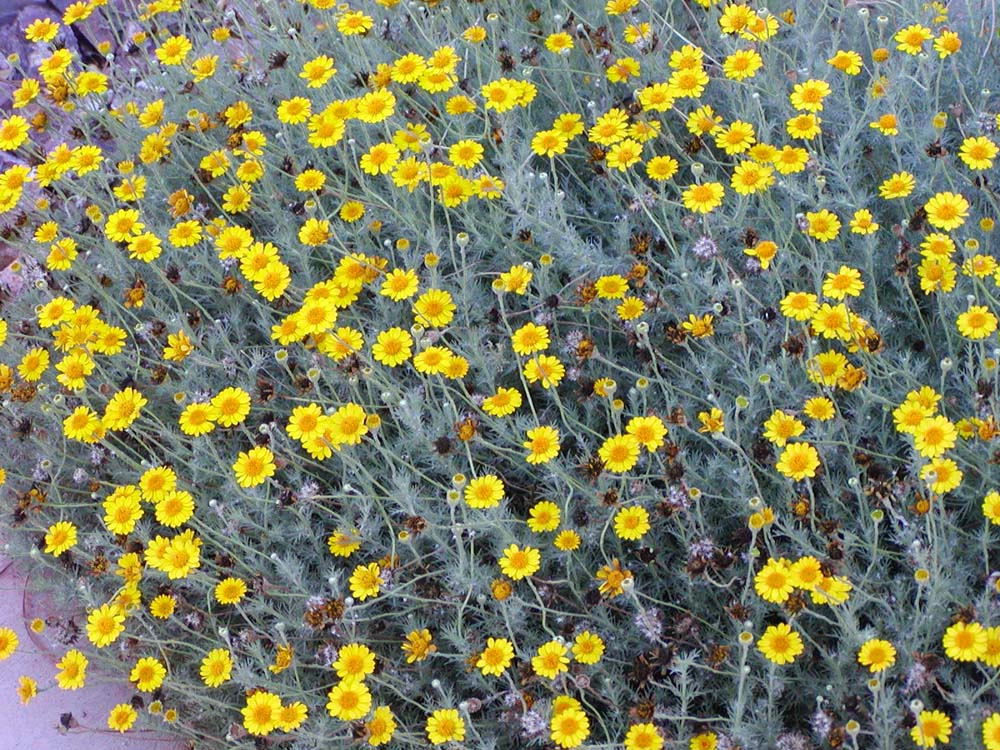 Photo of Dyssodia pentachaeta (golden dyssodia) at the Desert Demonstration Garden in Las Vegas